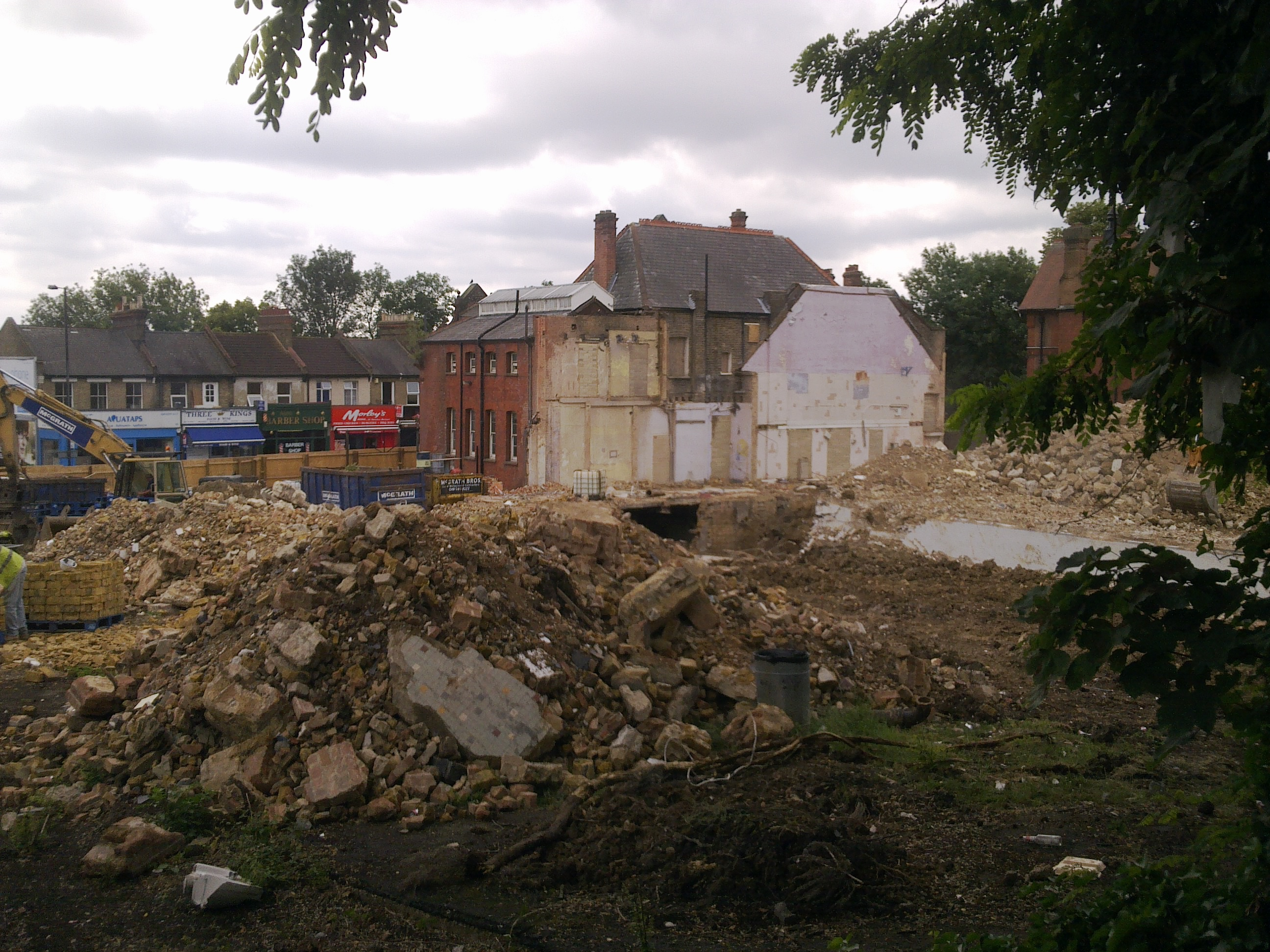 Forest Hill Pools' pool hall demolished as first stage of new facility